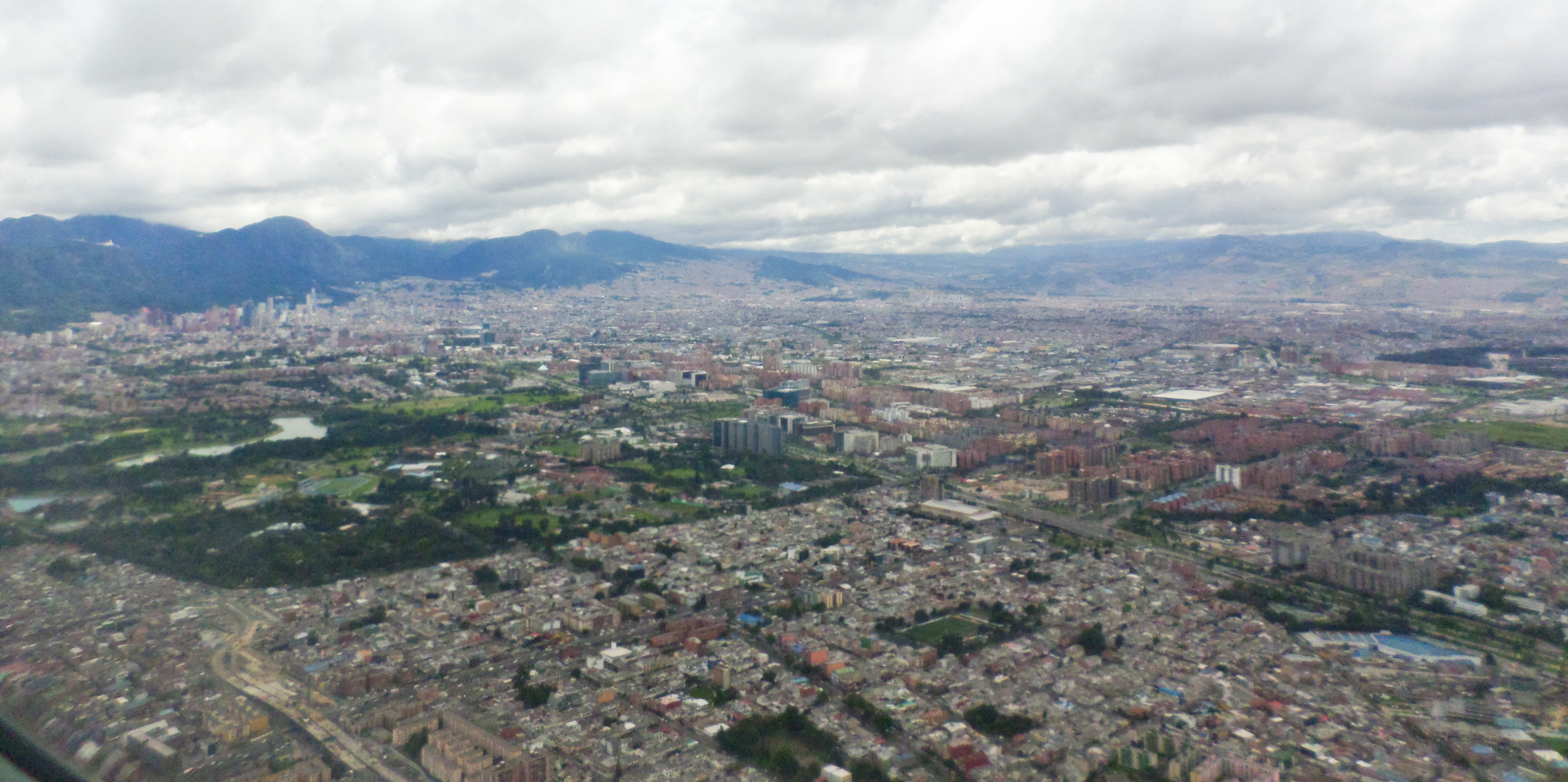 Aerial photographs of Bogotá